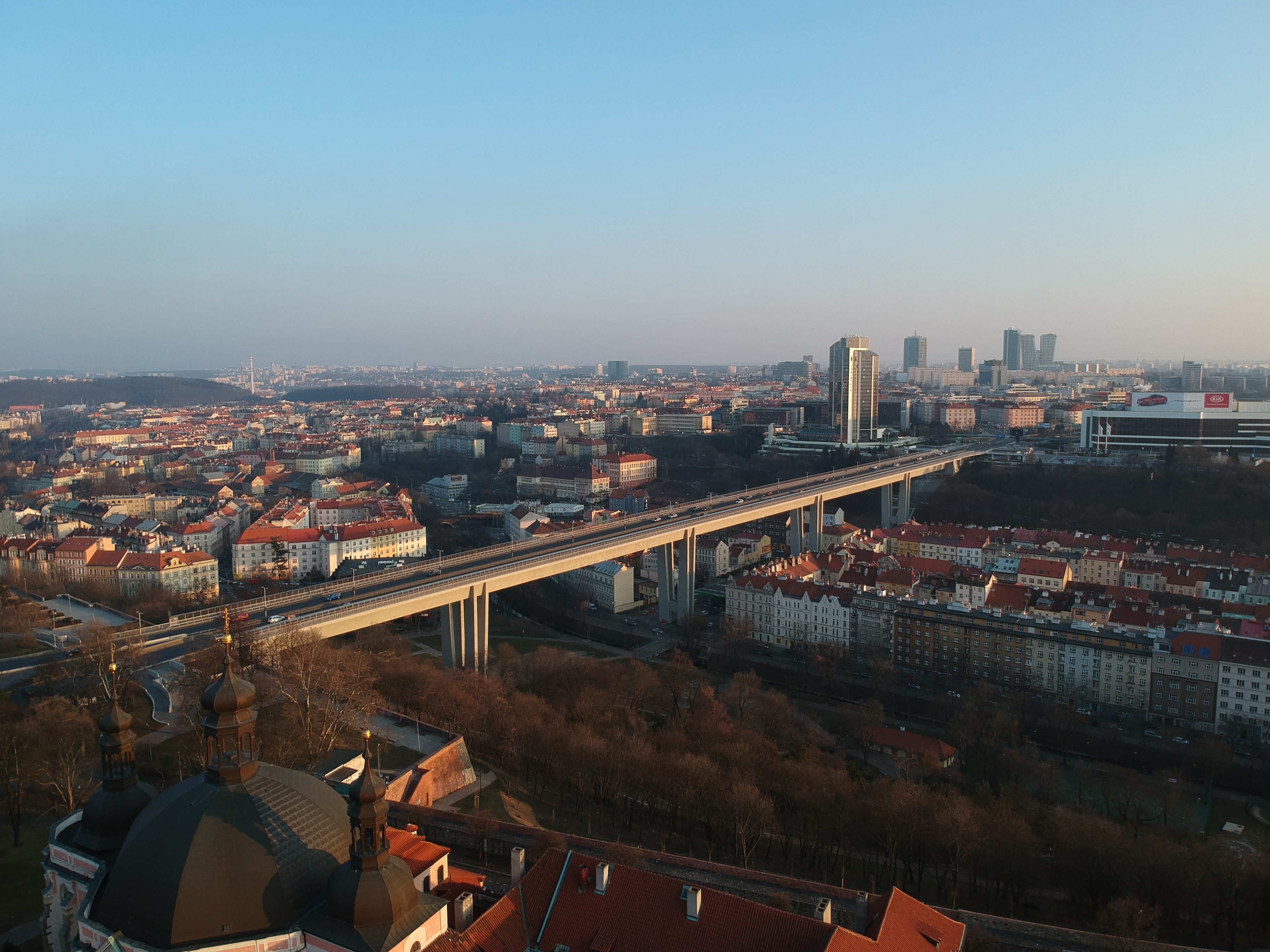 Photo of Nuselský bridge from drone